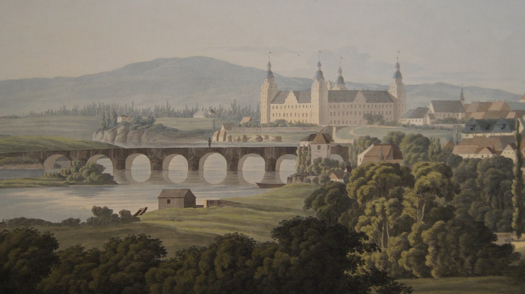 Southern view on Aschaffenburg (cropped), published by Domenico Artaria, Mannheim um 1800. - Graphic collection of Stadt- und Stiftsarchiv Aschaffenburg